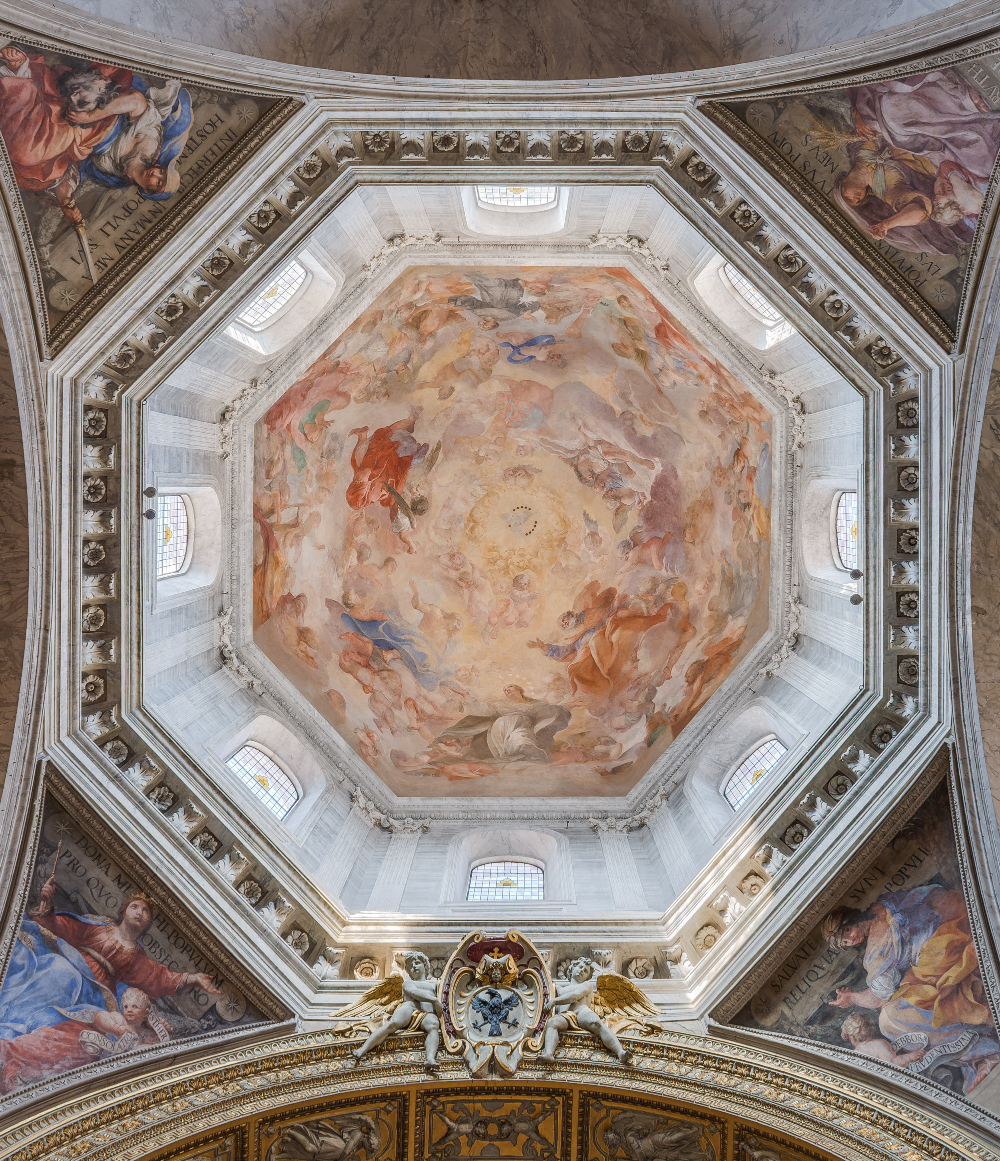 Dome of Basilica of Santa Maria del Popolo